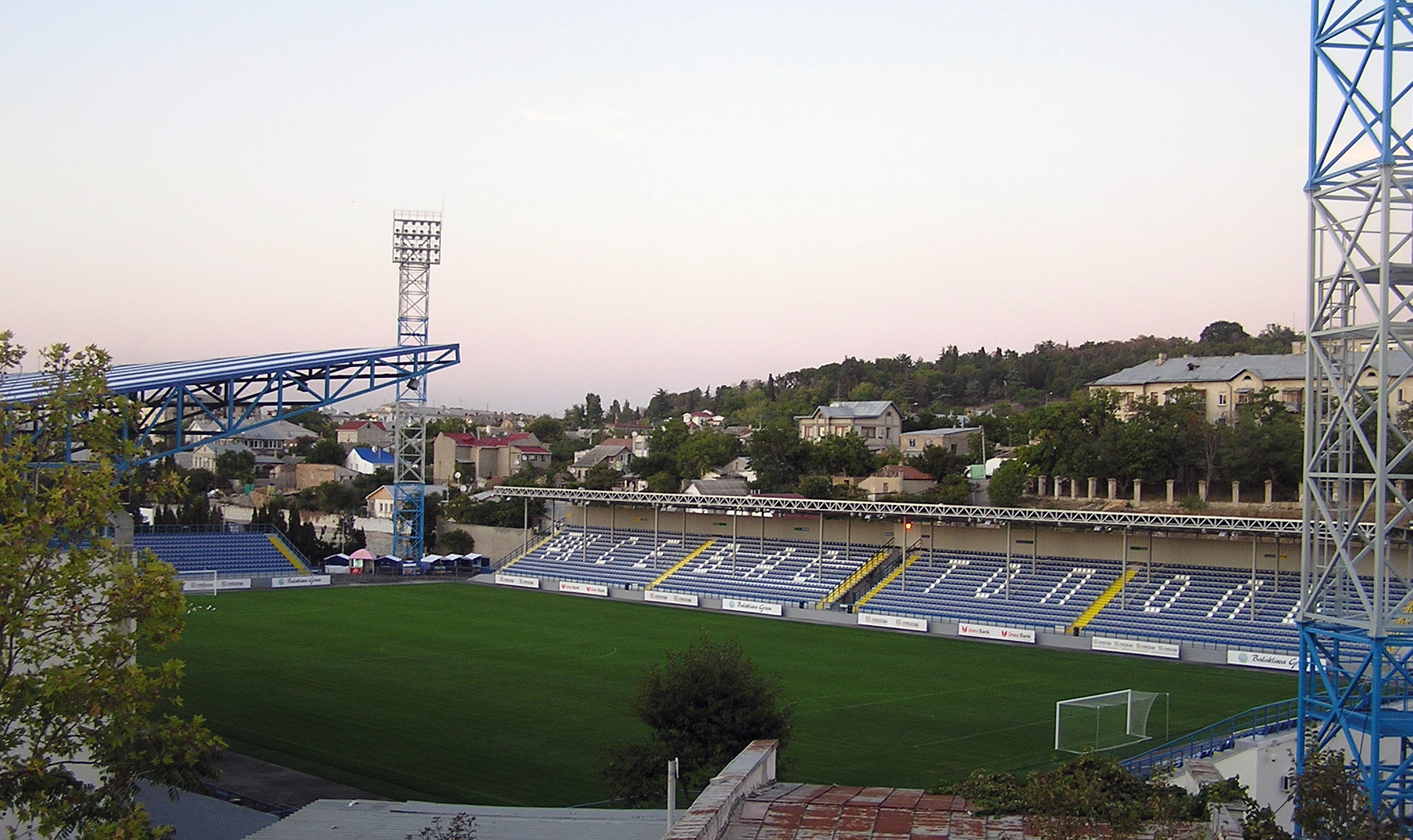 Sevastopol stadium